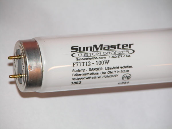 Typical tanning lamp. Note the F71T12 markings, which indicate the size, and the circle Hg marker that is now required in most US states. It indicates the lamp contains mercury. This example is a "bi pin" model (as are all F71 sizes) which slides then twists into place, like a common 4 foot fluorescent.